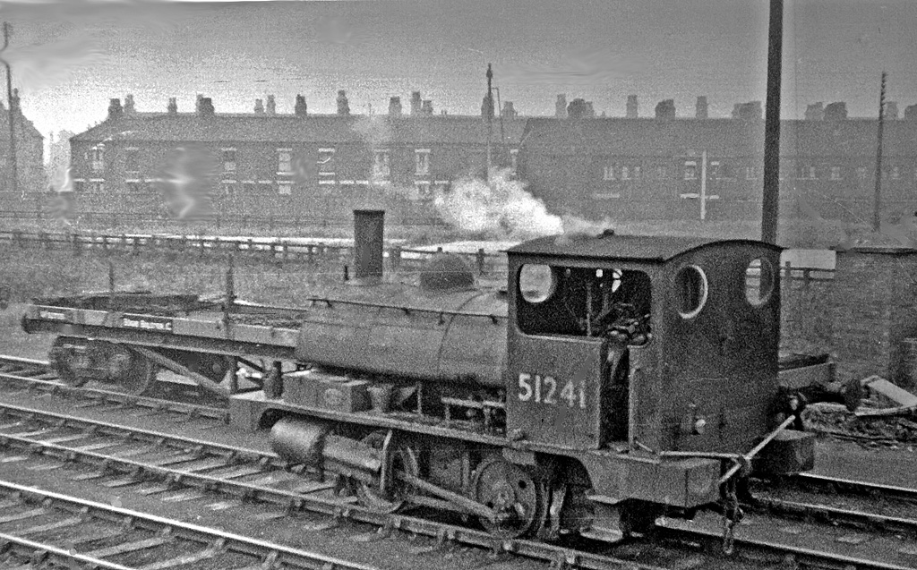 An L&Y 'Pug' 0-4-0ST at work in Goole Docks. Goole, East Riding of Yorkshire, England. Precise location uncertain, but perky little ex-Lancashire & Yorkshire 0-4-0ST was somewhere in the quite extensive Docks Sidings at Goole.